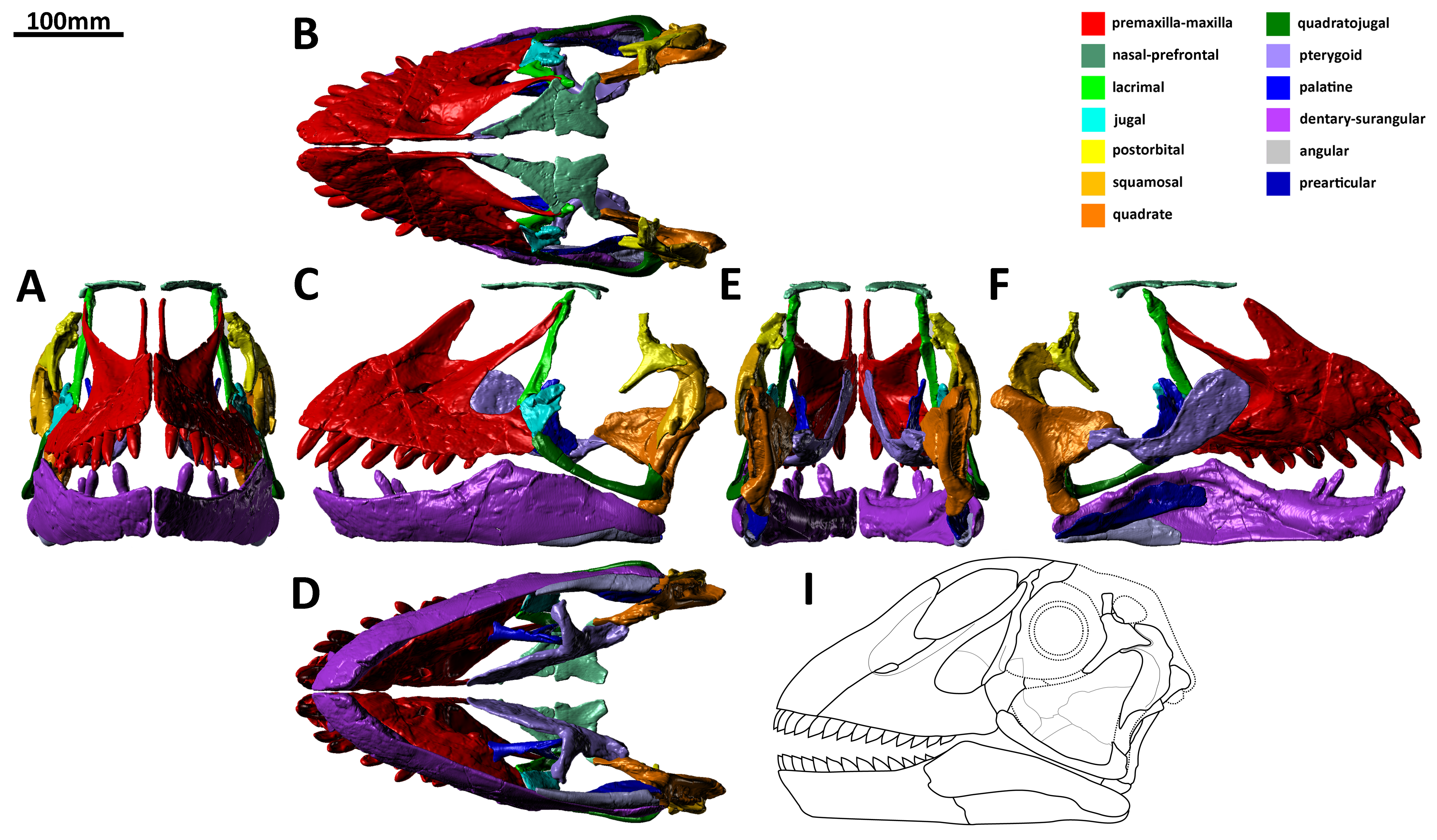 Reconstruction of the skull of Euhelopus zdanskyi based on the holotype elements (PMU 24705/1 [formerly PMU R 233]) from “exemplar a” in rostral (A), dorsal (B), left lateral (C), ventral (D), caudal (E), and medial (F) views; the right side of the skull has been removed in medial view to show the organisation of the palatal and mandibular elements. More complete and/or better preserved elements were used in this reconstruction when both left and right elements were preserved. The reconstructions of the skull provided by Wiman [43] (G) and Mateer and McIntosh [44] (H) are presented (removed in this version due to copyright issues), as is a line drawing of the skull as reconstructed in this work (I).